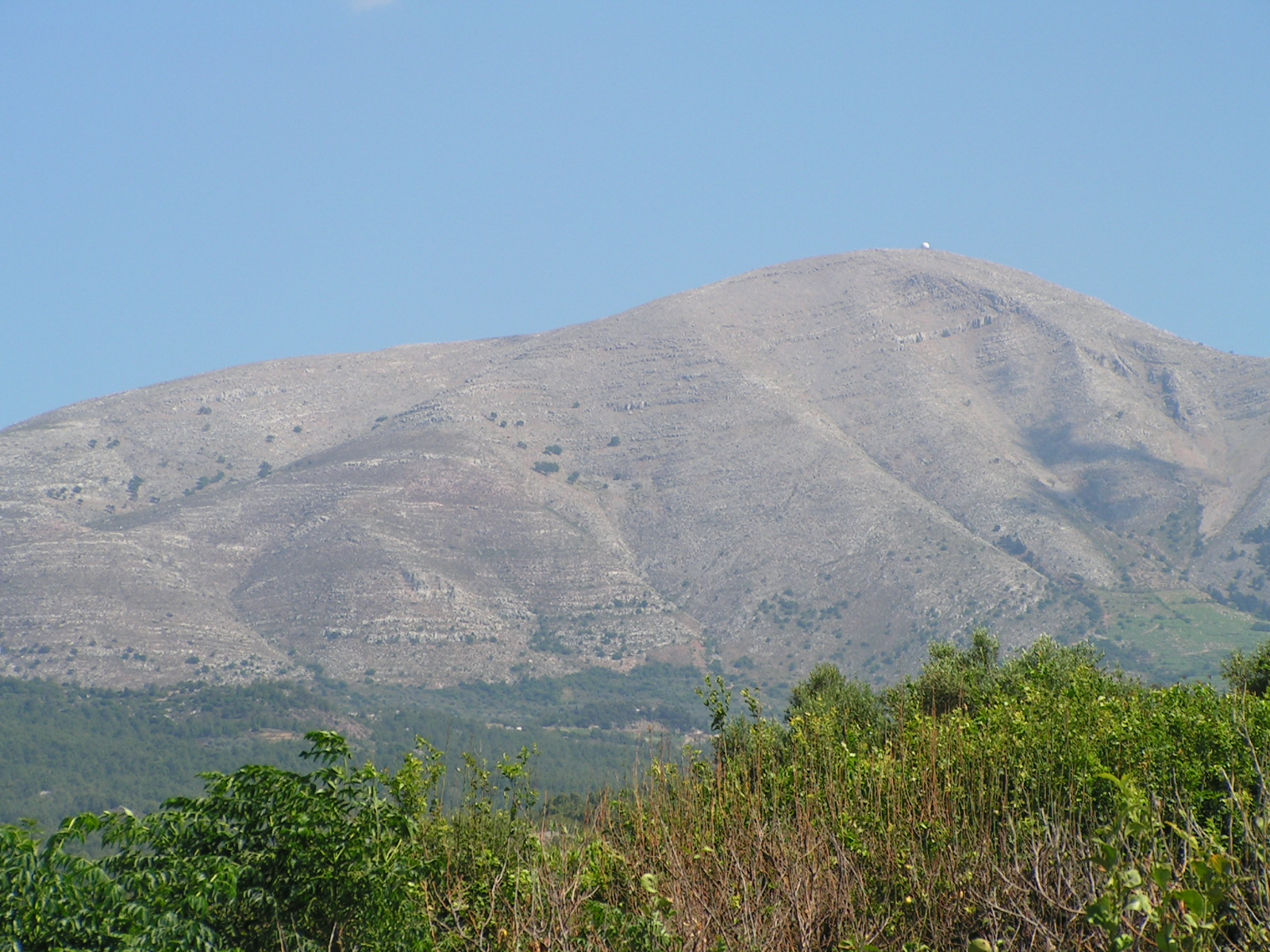 Attavyros mountain. Author: Petra Pospisilova